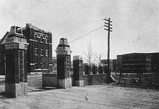 Keijo Imperial University